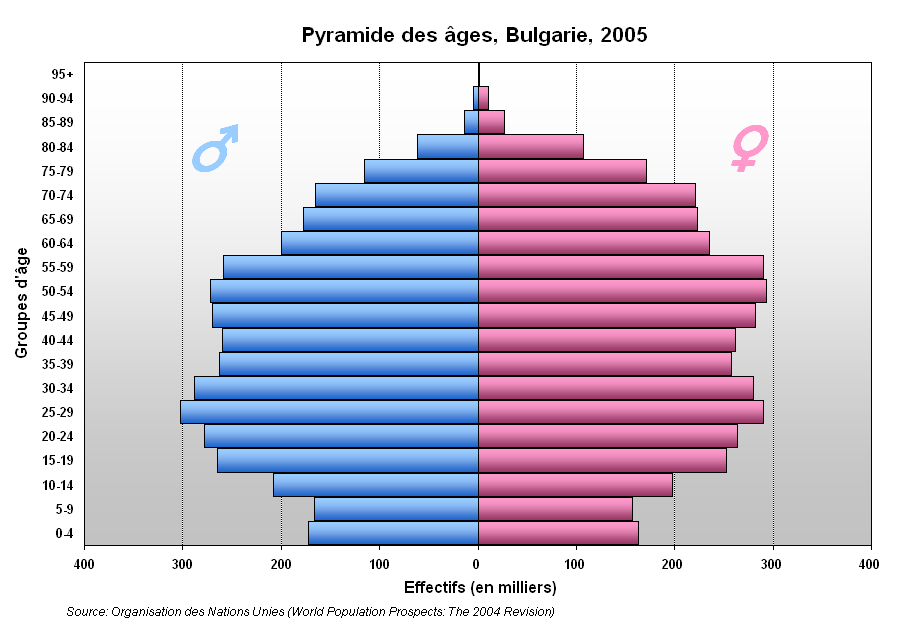 Bulgaria Population pyramid, 2005